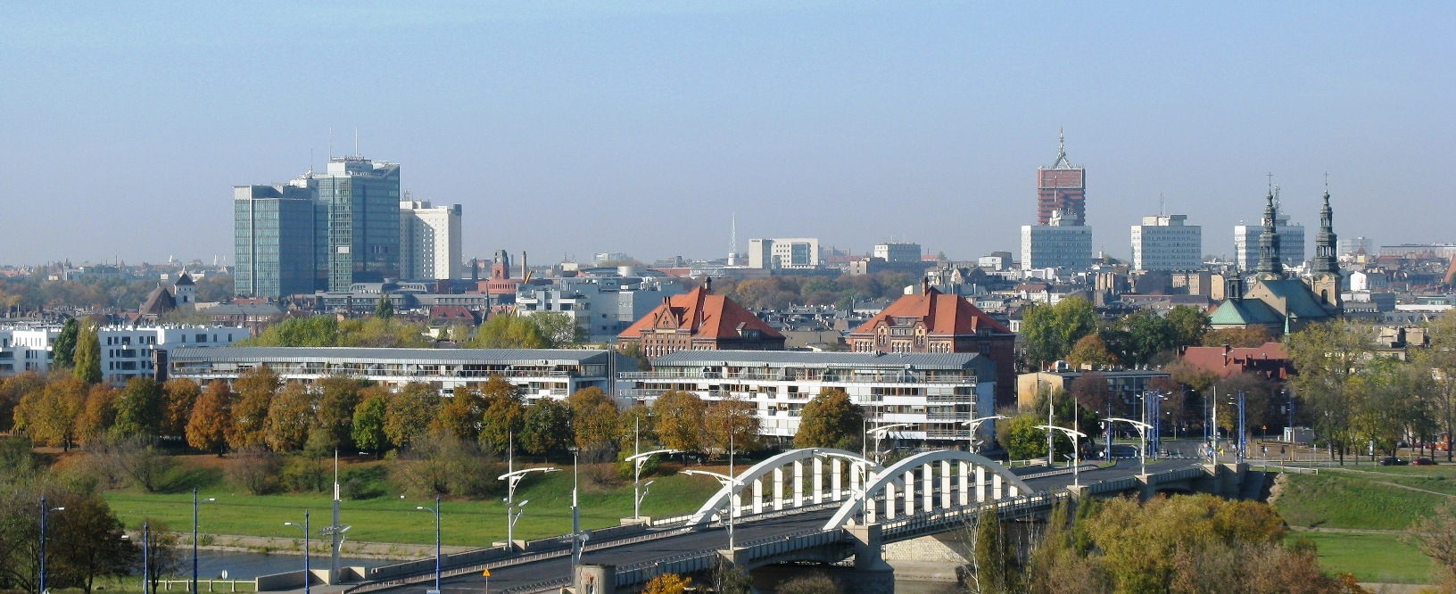 Poznan skyscrapers